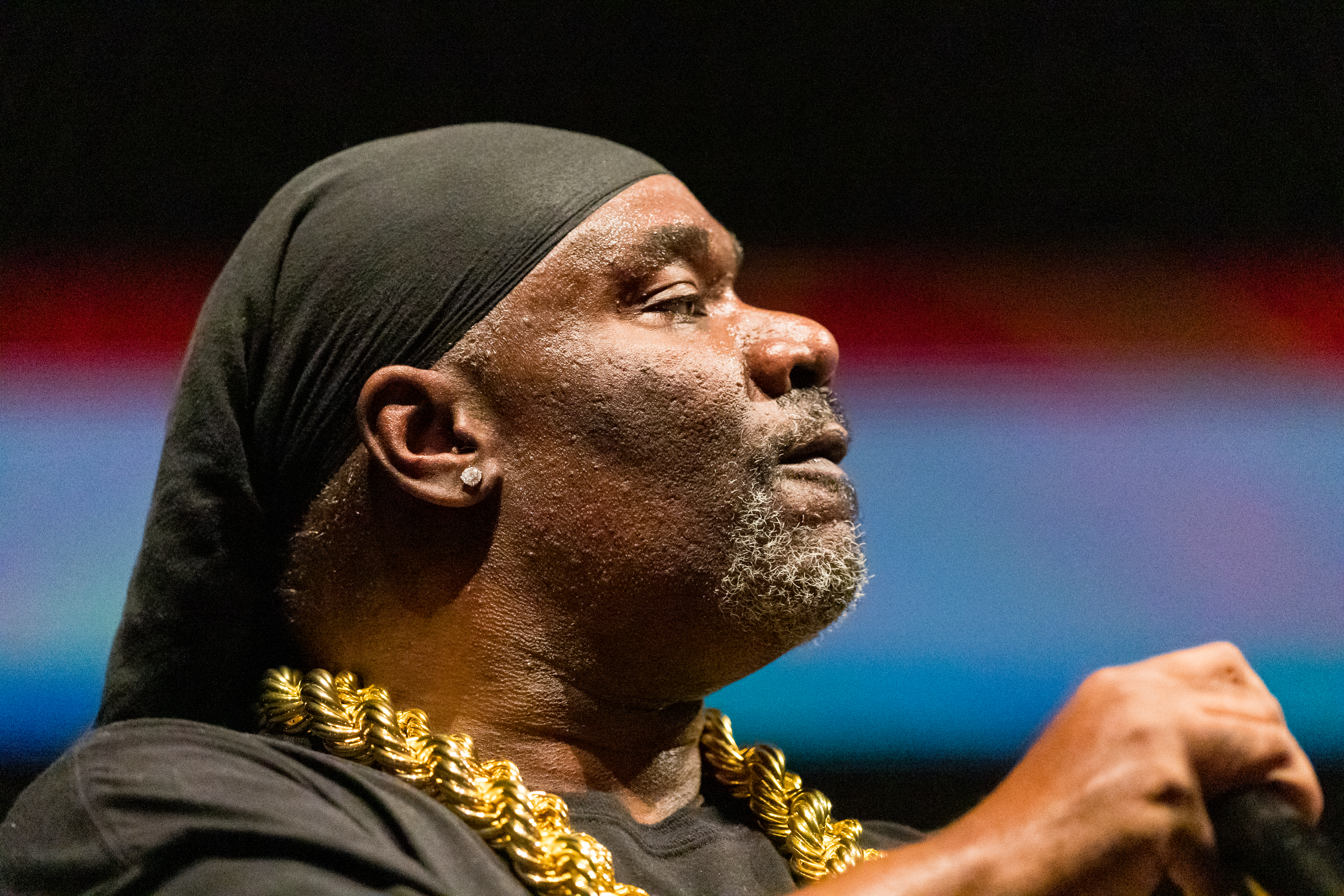 Turbo B during Sunshine Live - Die 90er Live on Stage at Maimarkthalle & Maimarktclub, Mannheim, Baden-Württemberg, Germany on 2018-11-25, Photo: Sven Mandel